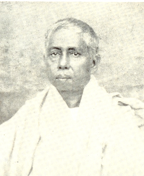 Umesh Chandra Dutta